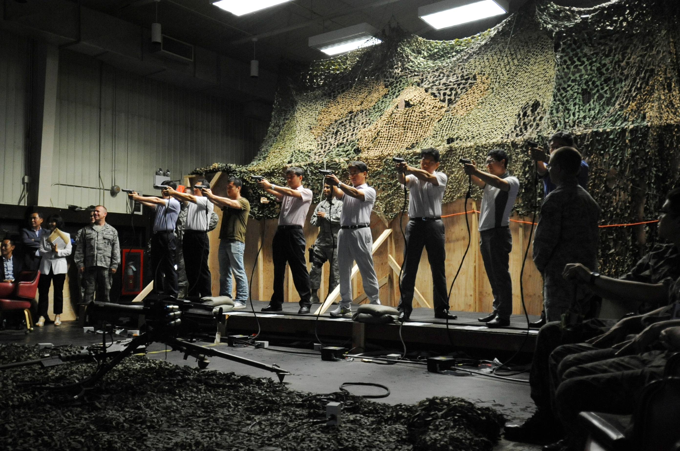 8th SFS hosts Korean National Police. Members from the Gunsan Police Station take aim with M9 handgun simulator weapons on Kunsan Air Base, Republic of Korea, Aug. 10, 2012. Members from the Gunsan Police Station were given a demonstration and tour of a firearms training simulator, which many defenders across the military use to train. (U.S. Air Force photo/Senior Airman Jessica Hines)